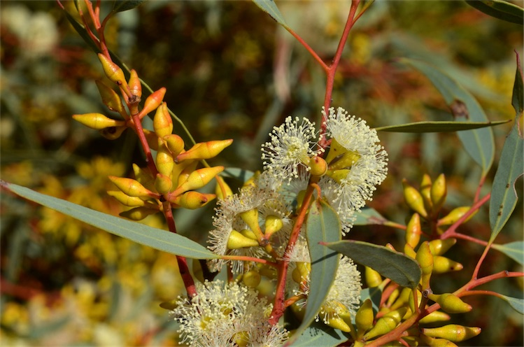 Flower buds and flowers of Eucalyptus yalatensis near the Streaky Bay to Sceale Bay road, Eyre Peninsula, South Australia